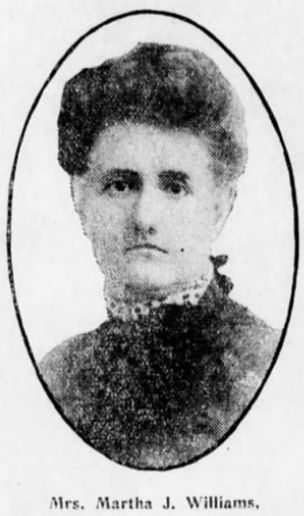 Martha J. Williams, pioneer suffragist in Brooklyn, NY. Mother of Oreola Williams Haskell. Published in the Brooklyn Daily Eagle on Feb 3 1905 (p.22).